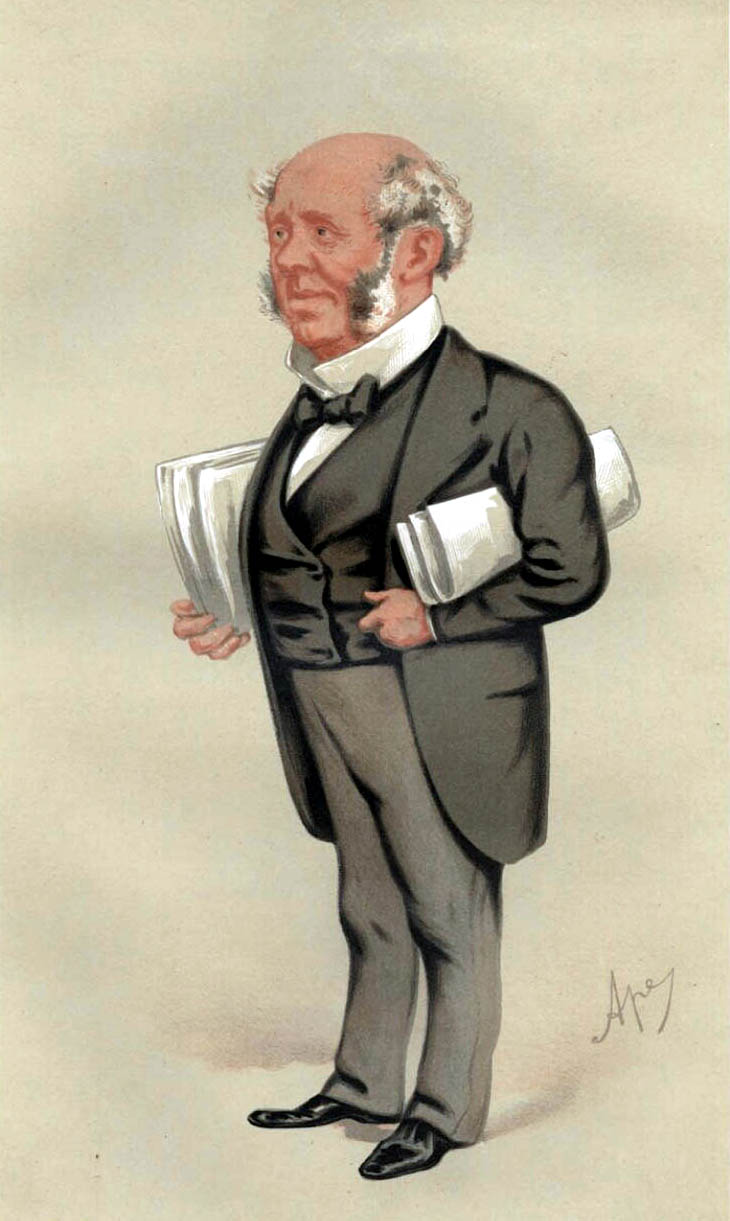 Caricature of The Hon Arthur Kinnaird, 10th Lord. Caption reads: "Piety and Banking".